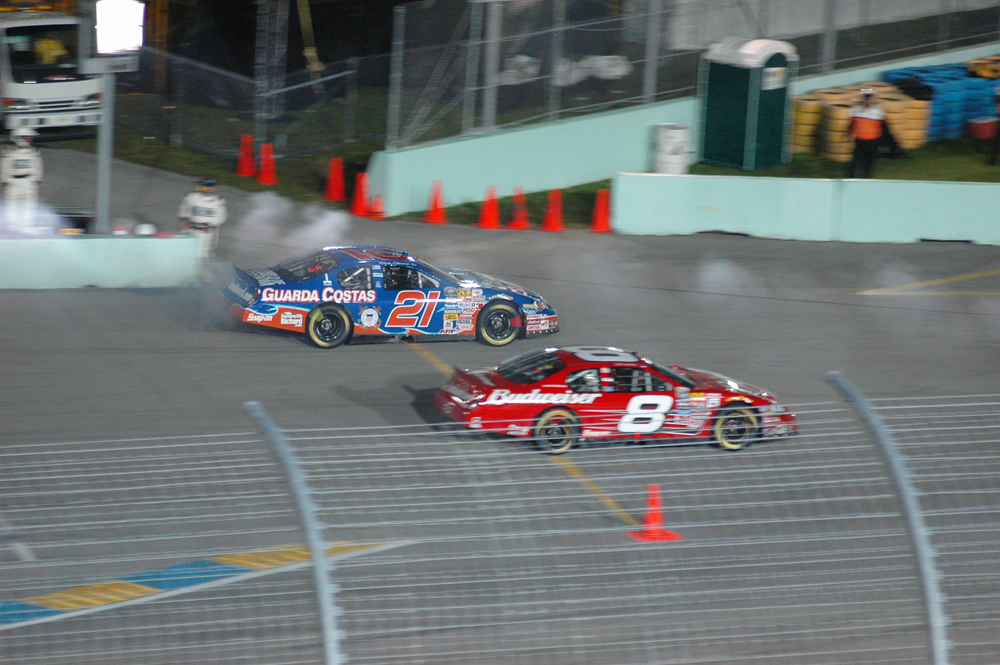 Kevin Harvick and Dale Earnhardt, Jr. race off of pit row